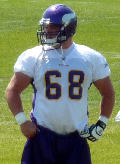 Jon Cooper, while a member of the Minnesota Vikings, at the Vikings' 2009 Training Camp, Mankato, Minnesota, USA.